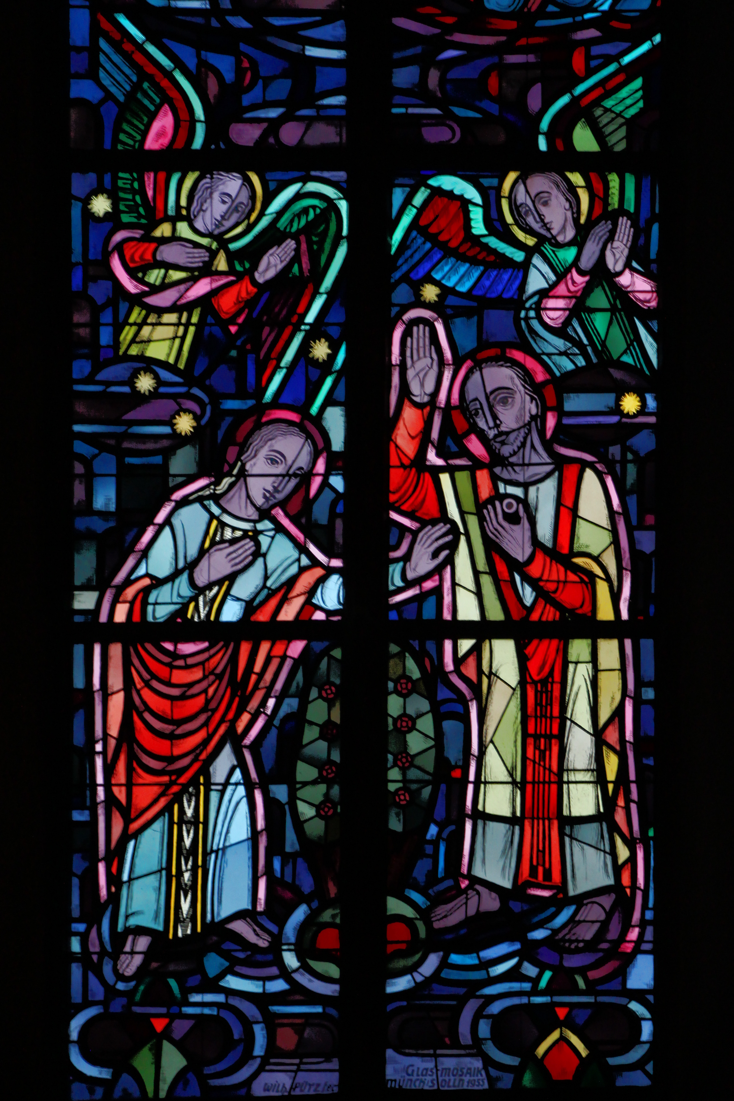 Jesus presents a wedding ring to St Mary (right lower choir window)